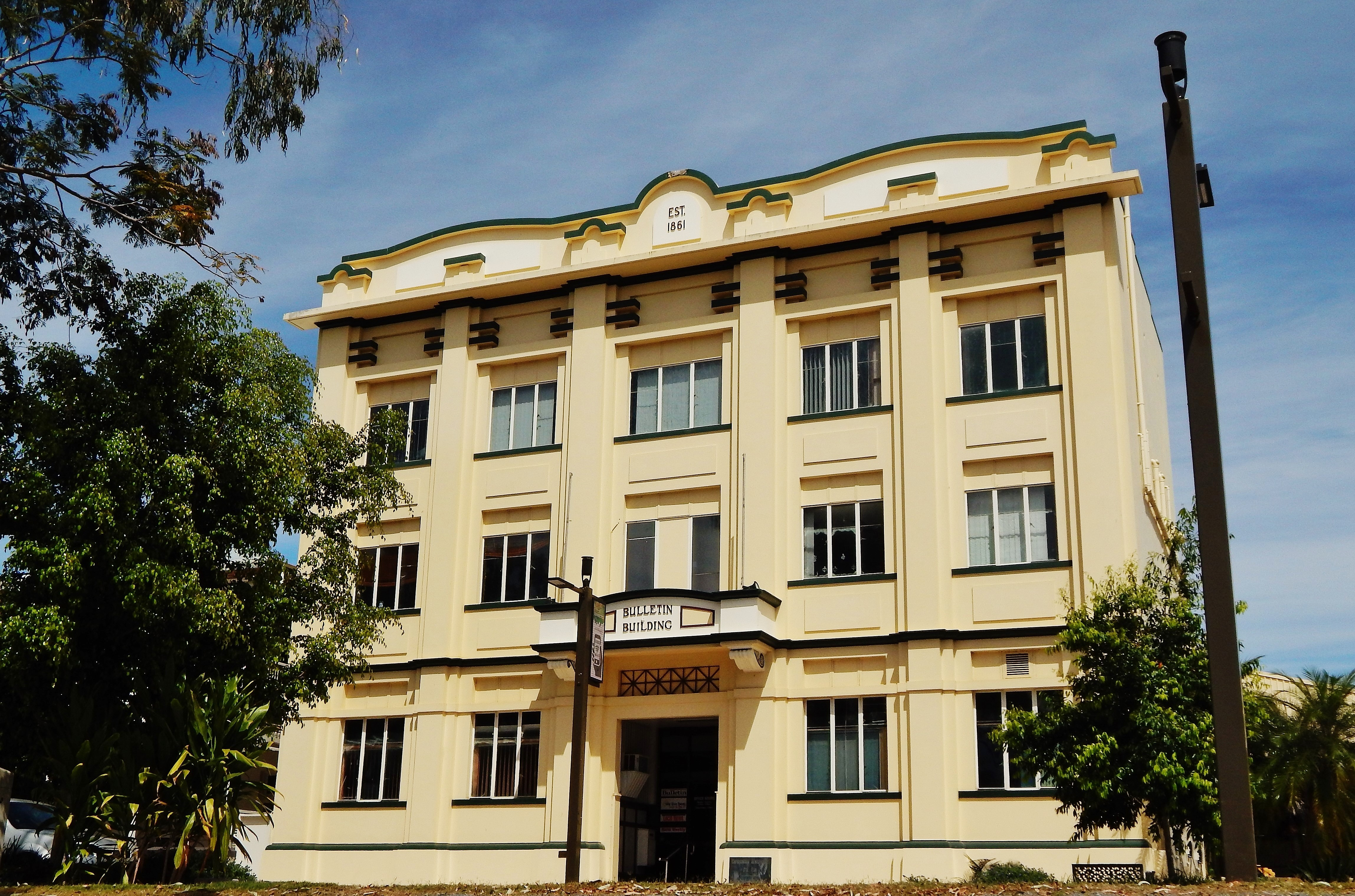 The heritage-listed Bulletin Building, a three-storey newspaper building located on the riverfront in the regional Australian city of Rockhampton, Queensland. The building was constructed in 1926, and served as the headquarters for Rockhampton's daily newspaper The Morning Bulletin until 2014 when the newspaper relocated to smaller premises in Bolsover Street.